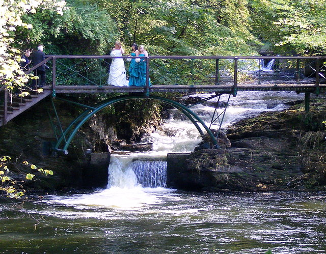 A Bridal Party by The Falls This is at Linn House In Keith.